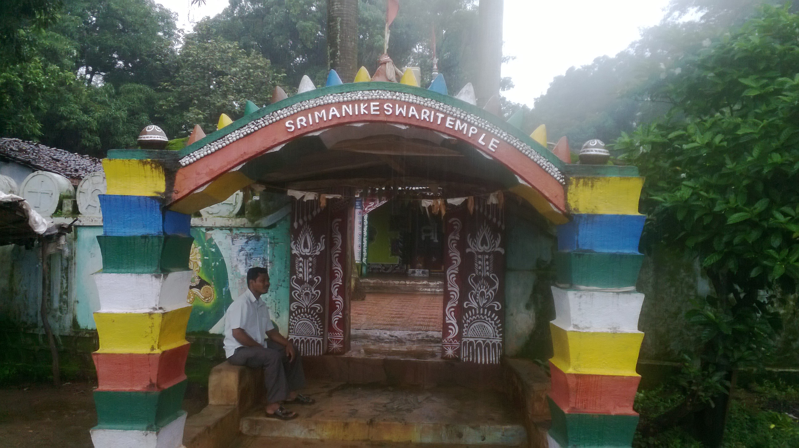 Maa Manikeshwari Mandir, Th. Rampur